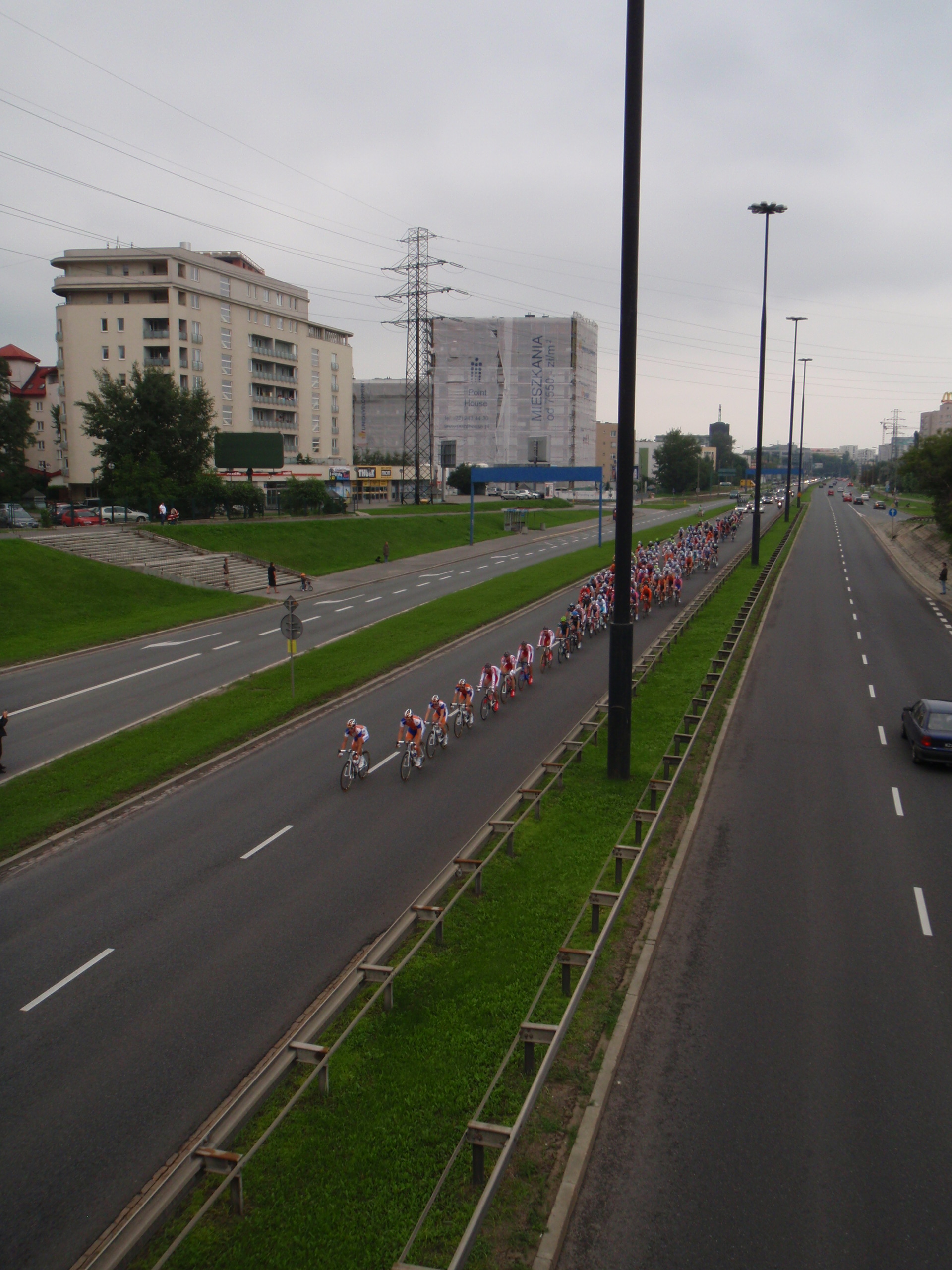 Tour de Pologne 2011 in Warsaw